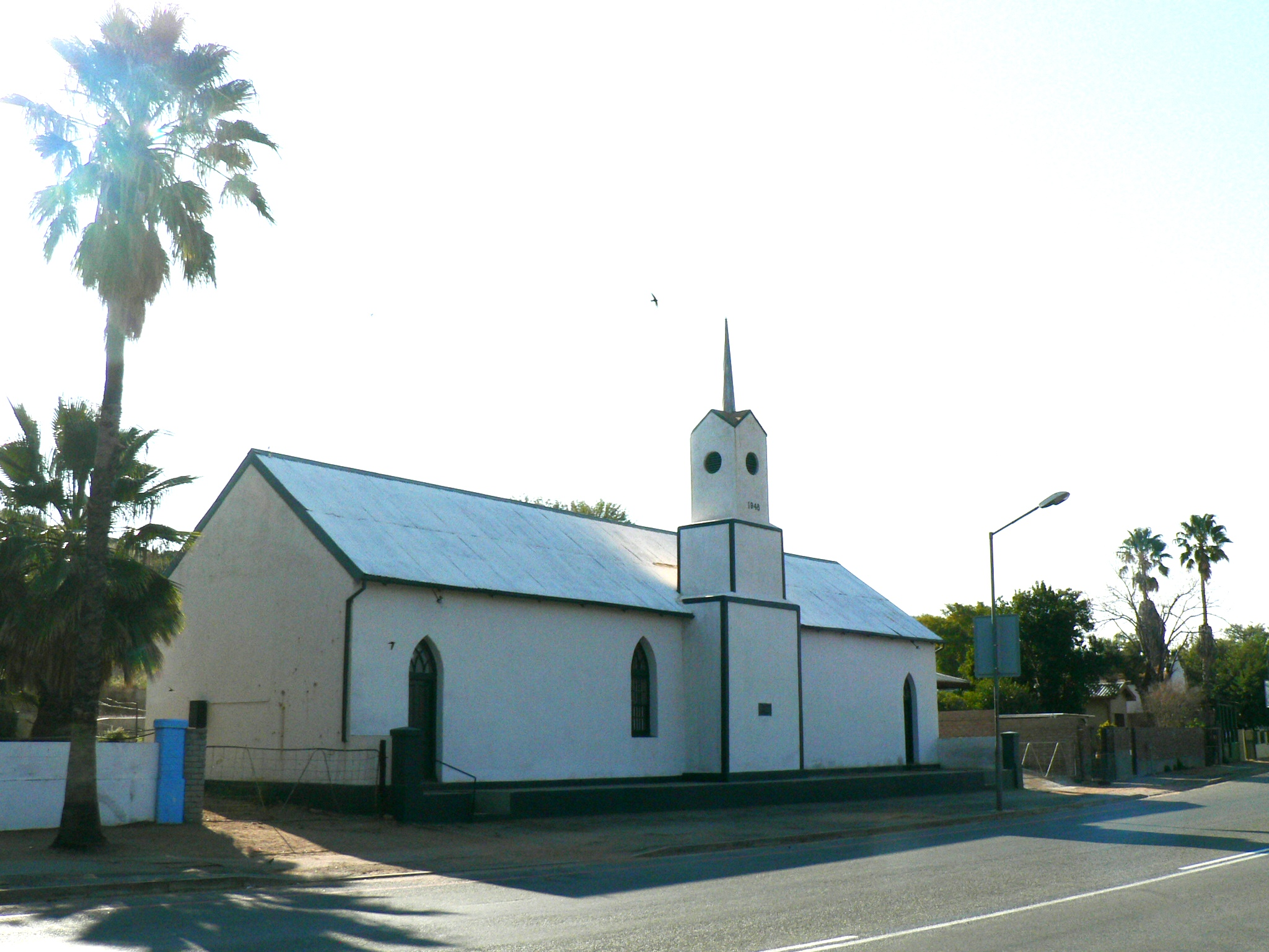 This media shows a South African Protected Site with SAHRA file reference 9/2/032/0011.